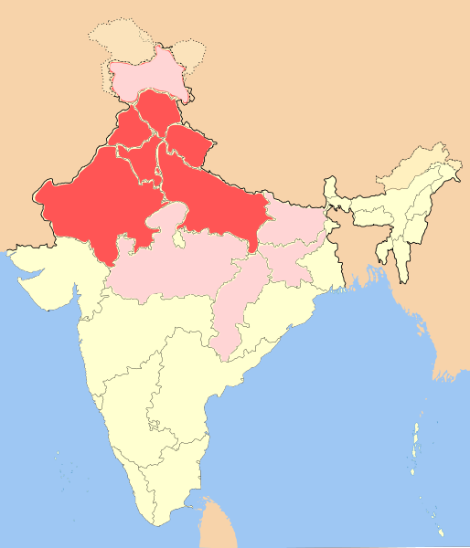 North Indian states + areas under their cultural influence